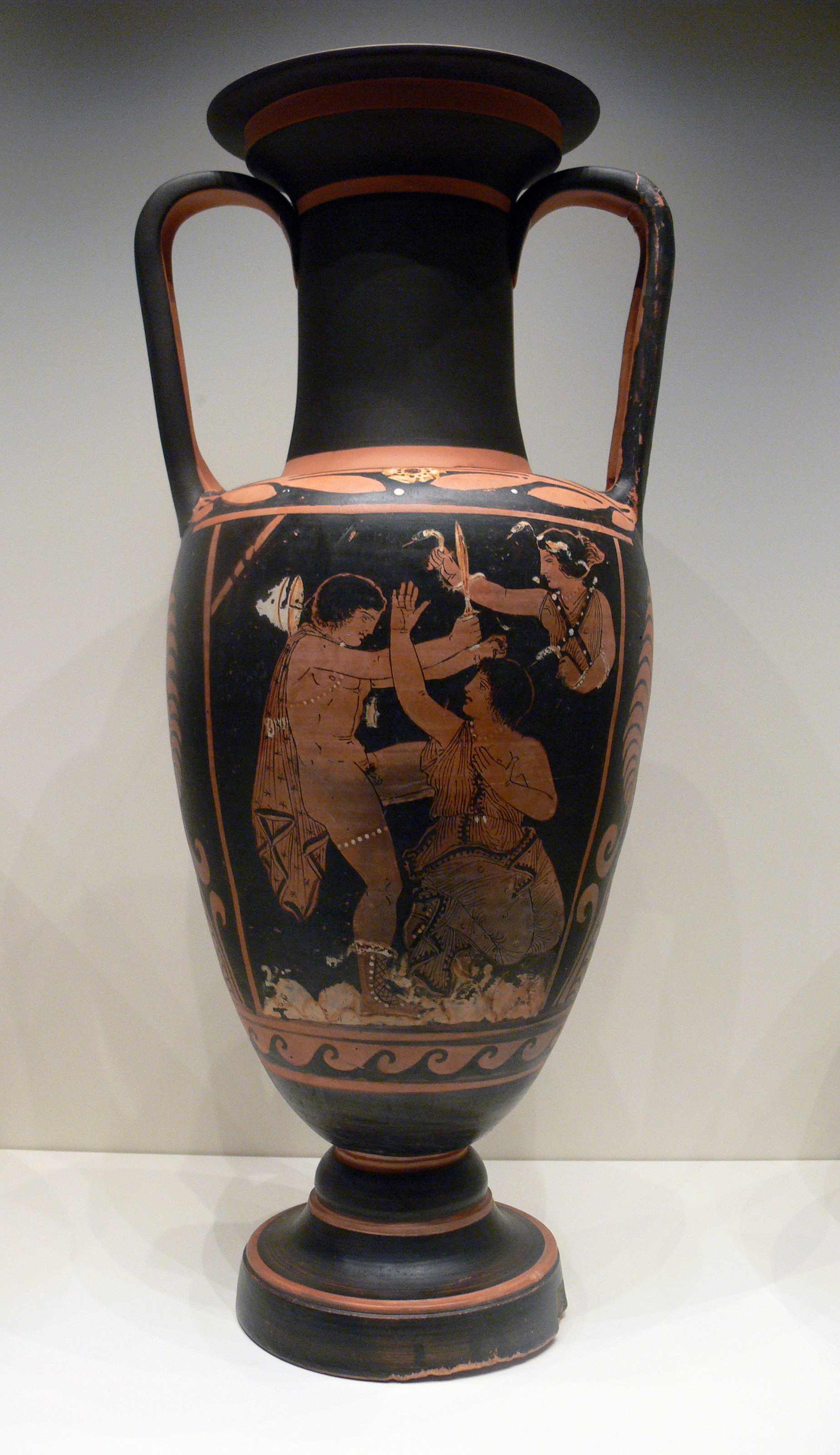 Storage jar with a scene from the Oresteia.